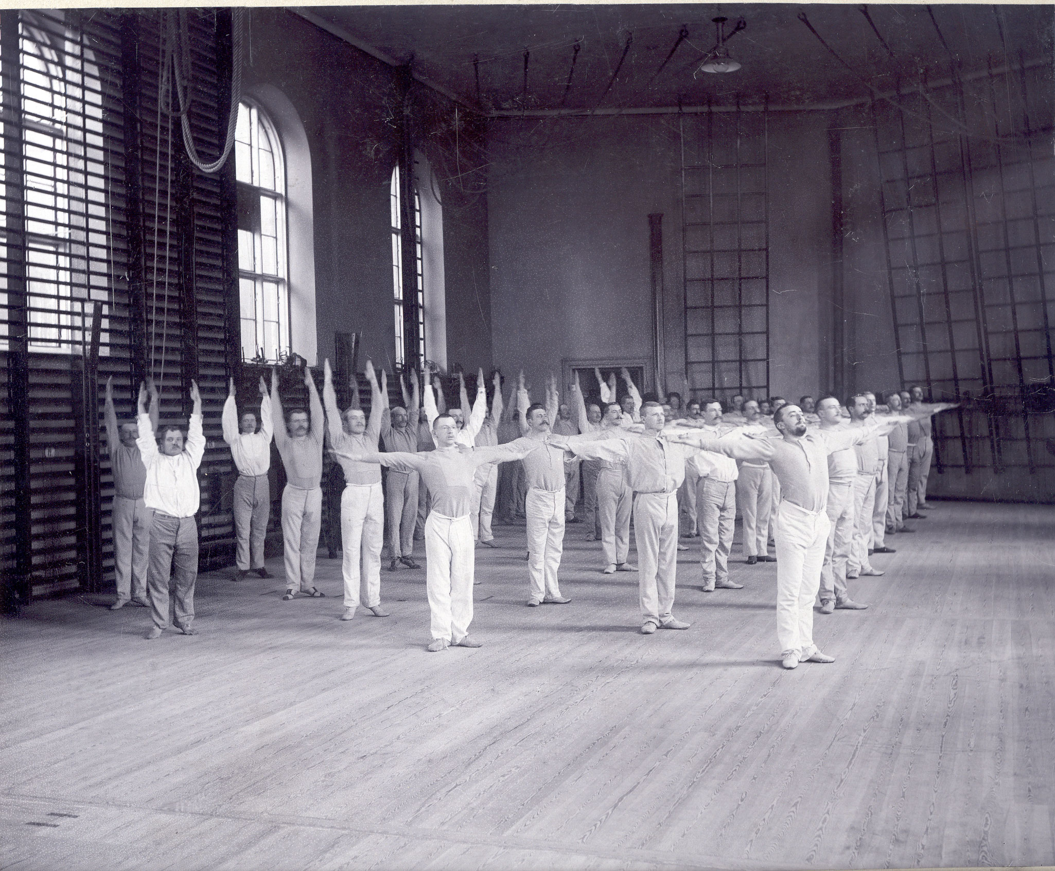 Swedish gymnastics at the Royal Gymnastics Central Institute in Stockholm, about 1900